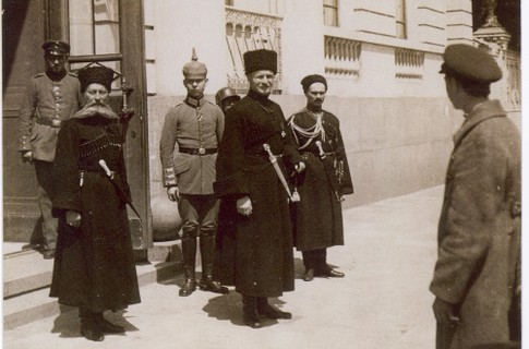 Гетман Украины Павел Скоропадский в окружении ближайших соратников - полковников Зеленевского и Полтавца-Остряницы